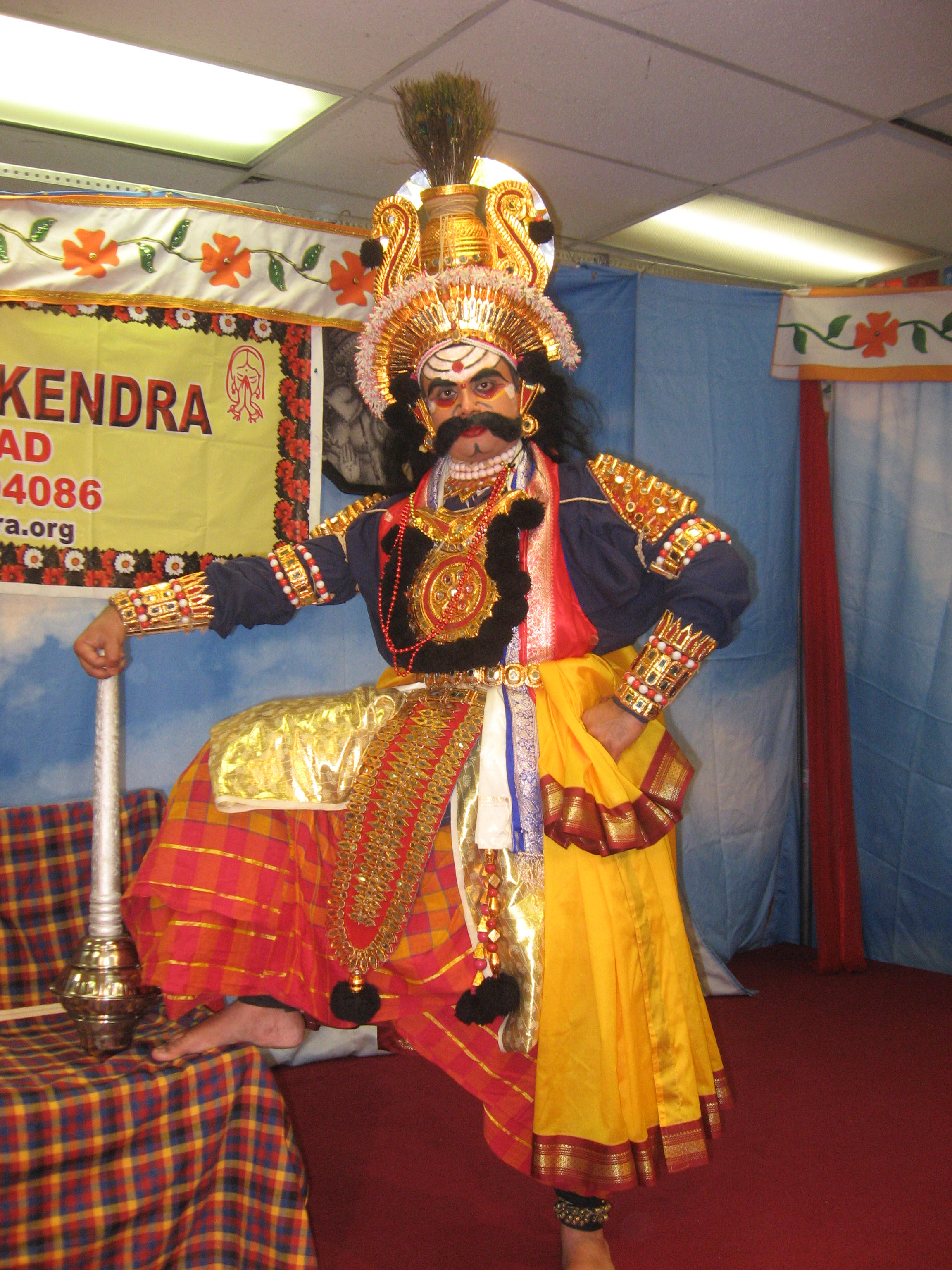 Yakshagana Vesha